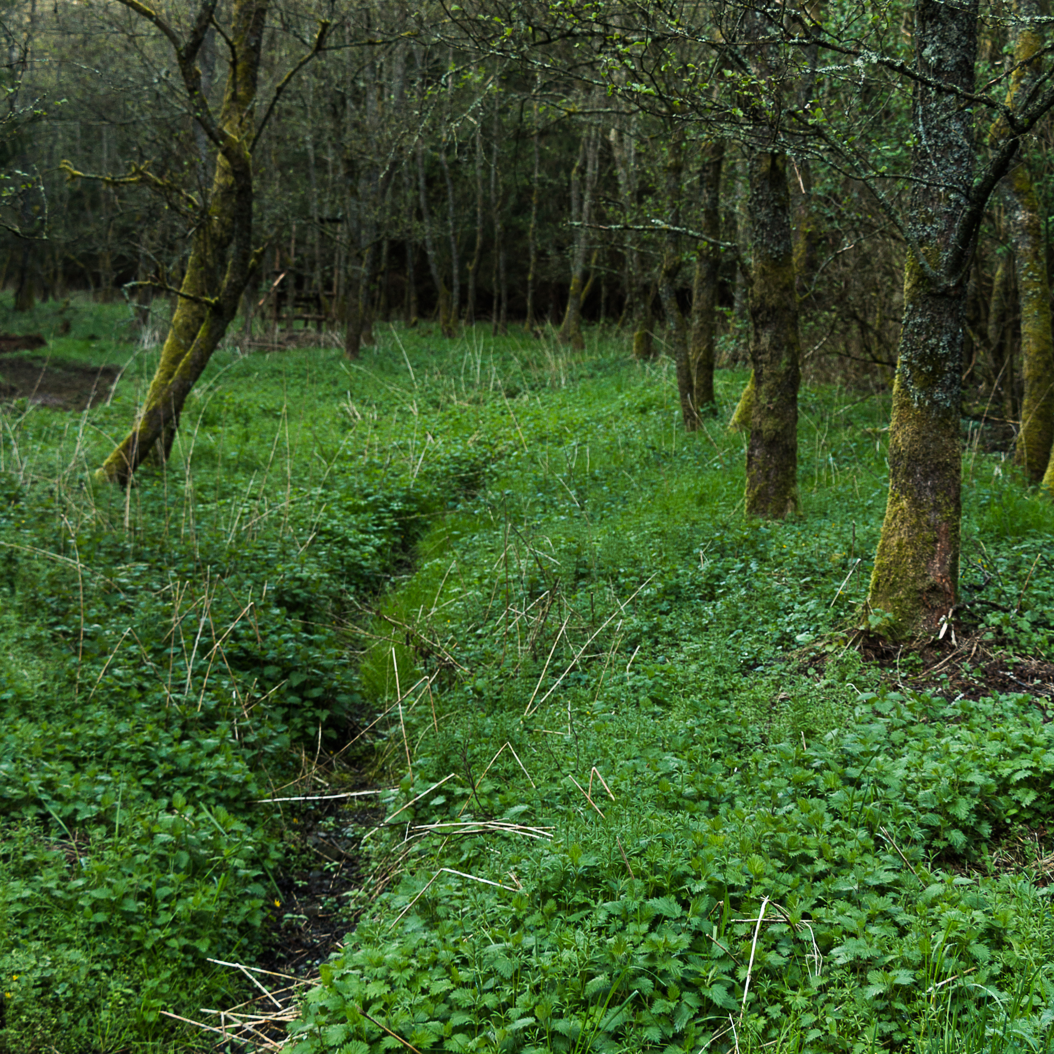 Der Binnbach nahe Höhn, Westerwald